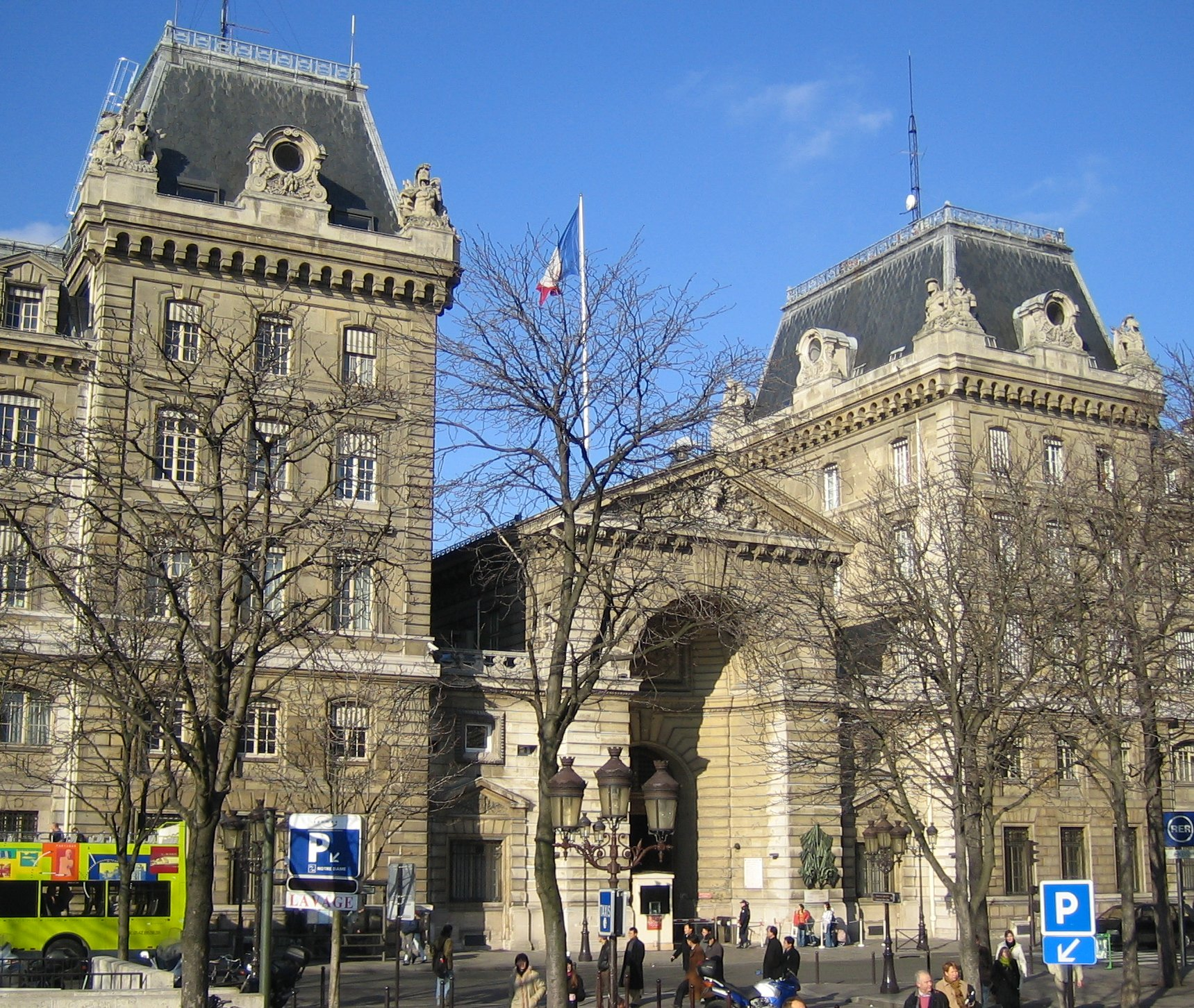 Paris, entrance of the Préfecture de Police